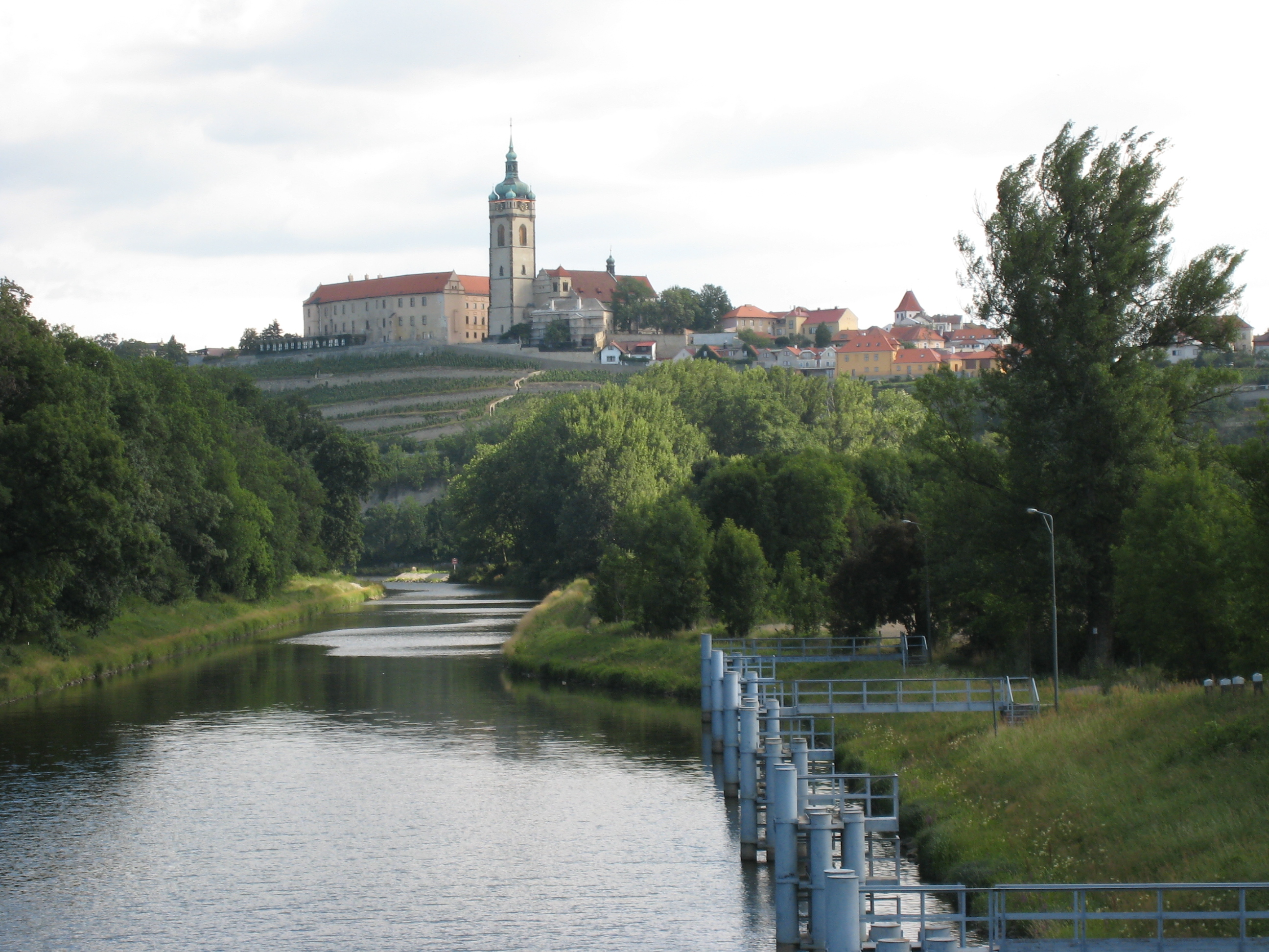 Castle in Mělník, Czech Republic. View from the Vltava canal.